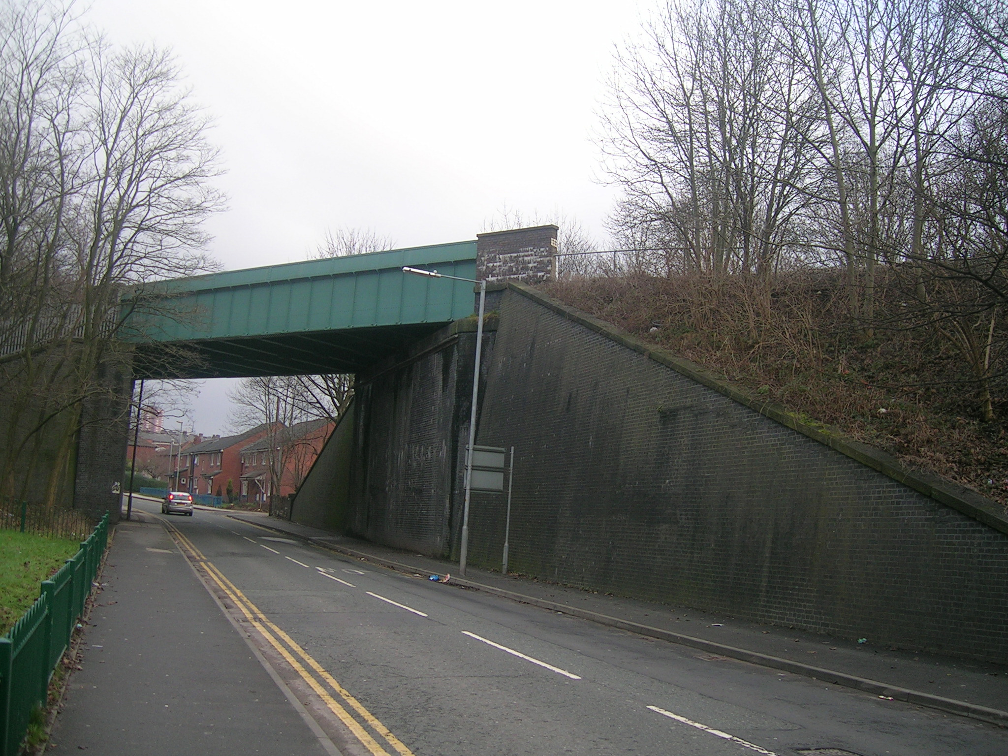 Wash Brook railway bridge